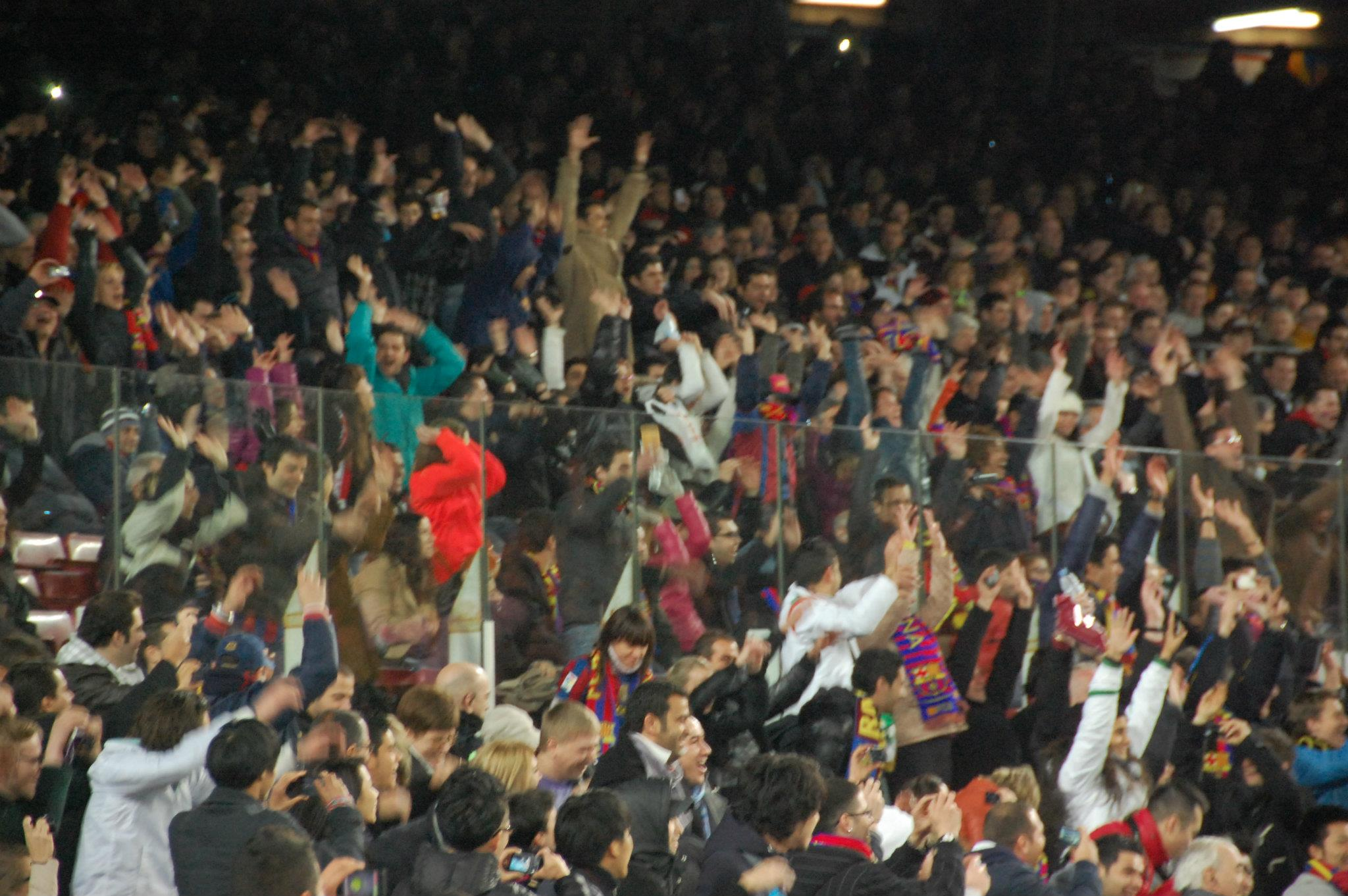 FC Barcelona - Bayer 04 Leverkusen, 1/8 Final UEFA Champions League, Season 2011/2012